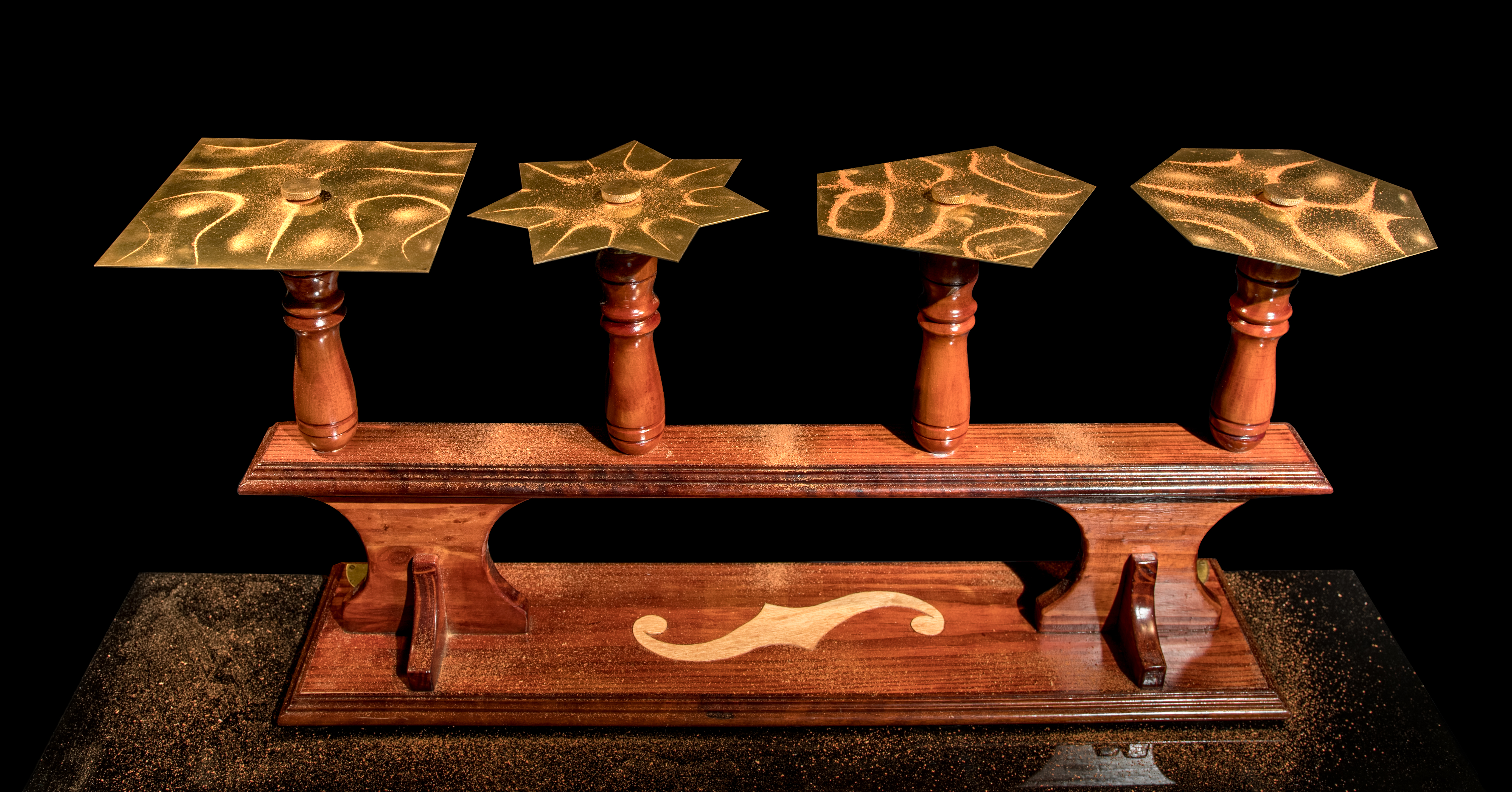 Mathematical object for illustrating Chladni figures on display at Matemateca IME-USP (pt)